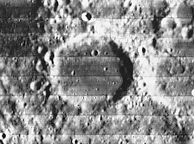 Buch crater